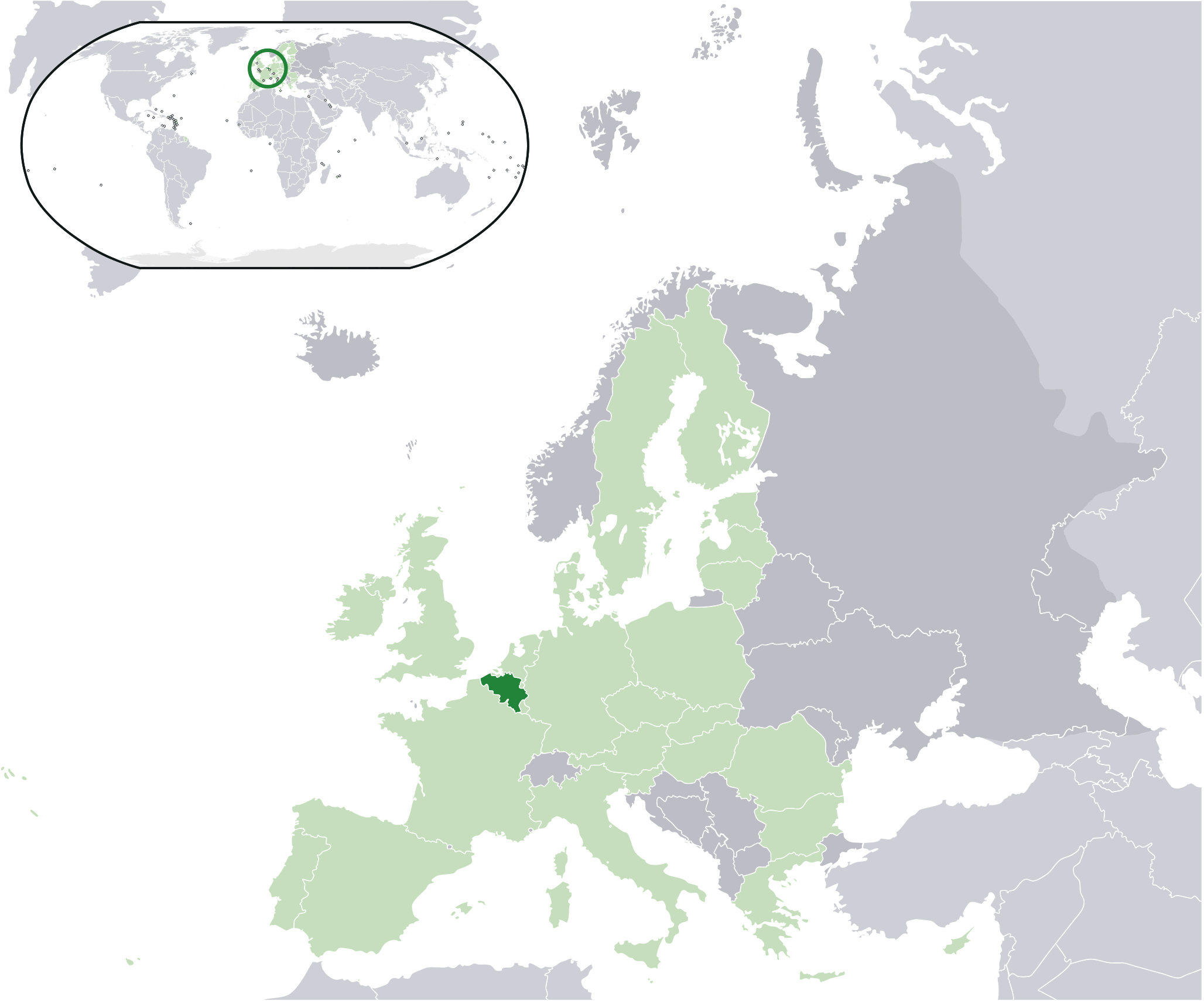 Location map: Belgium (dark green) / European Union (light green) / Europe (dark grey); inspired by and consistent with general country locator maps by User:Vardion, et al.